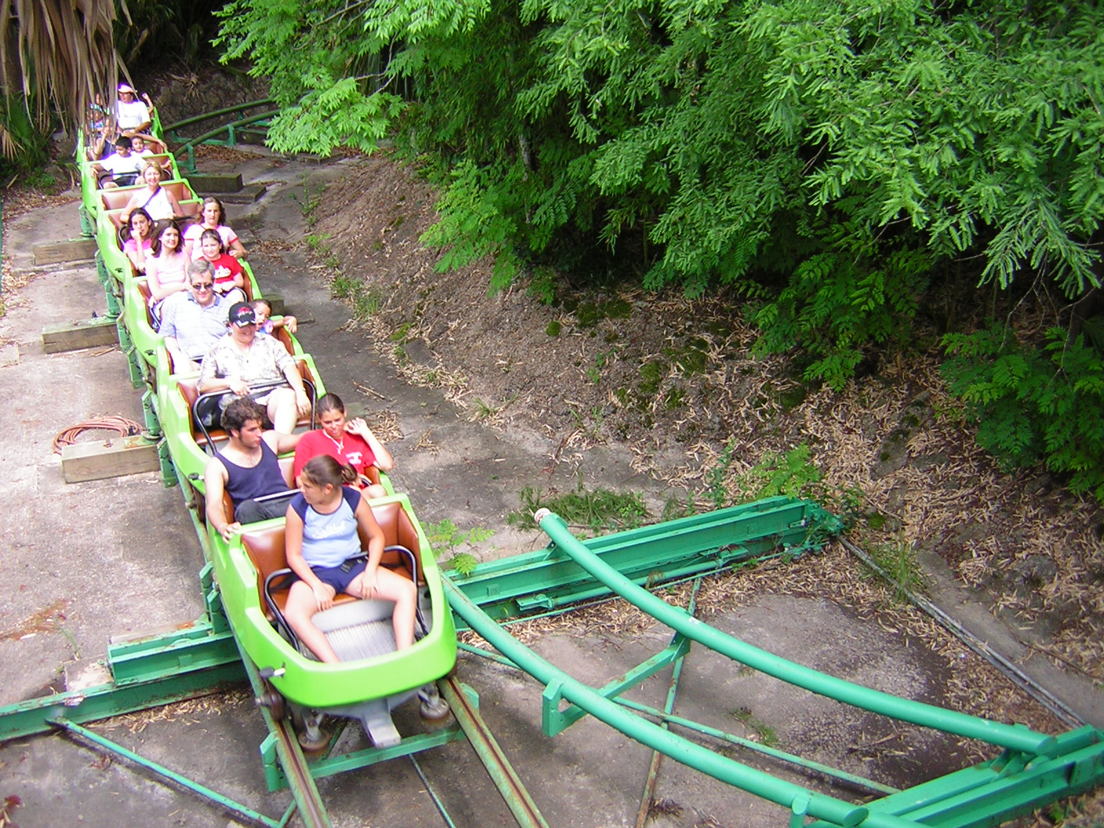 I know, pretty embarrassing.Serpent